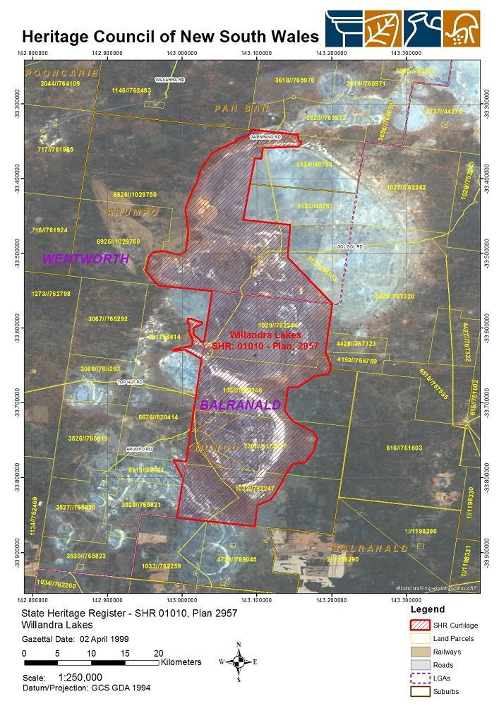 Willandra Lakes Region: SHR Plan No 2957